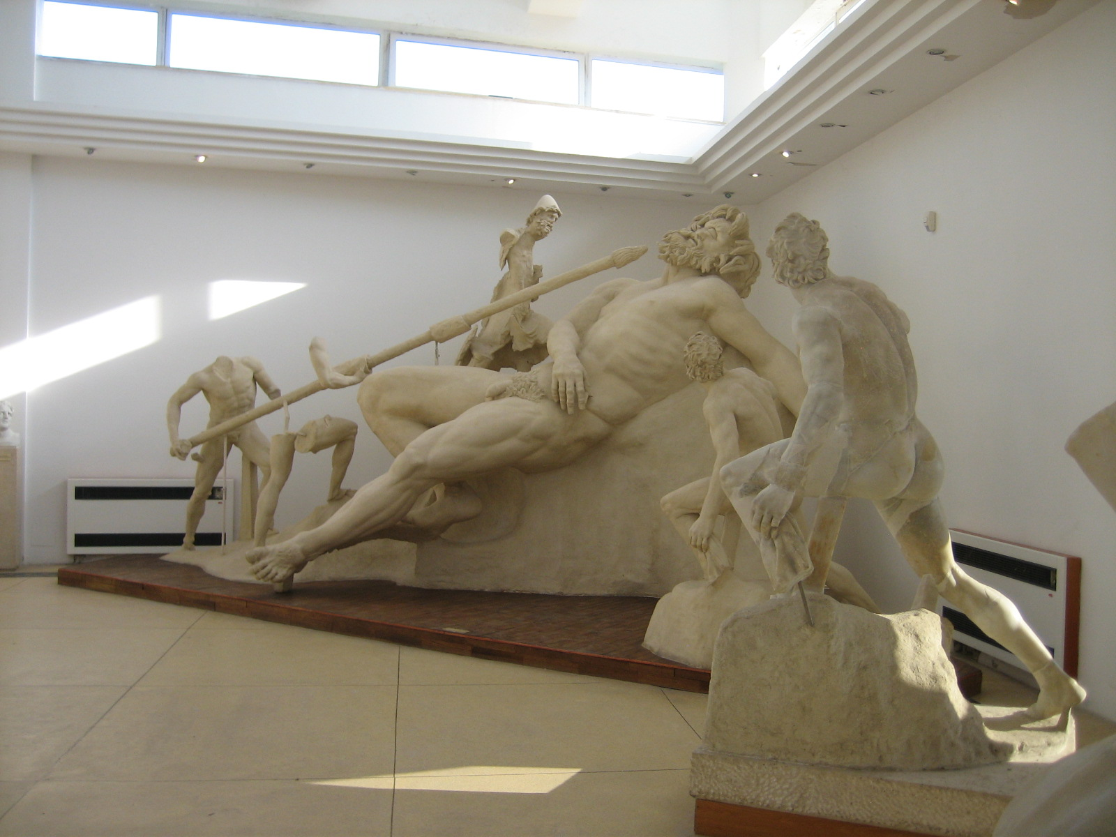 The central group at Sperlonga, with the Blinding of Polyphemus; cast reconstruction of the group, with the original figure of the "wineskin-bearer" seen in front of the cast version at the right.